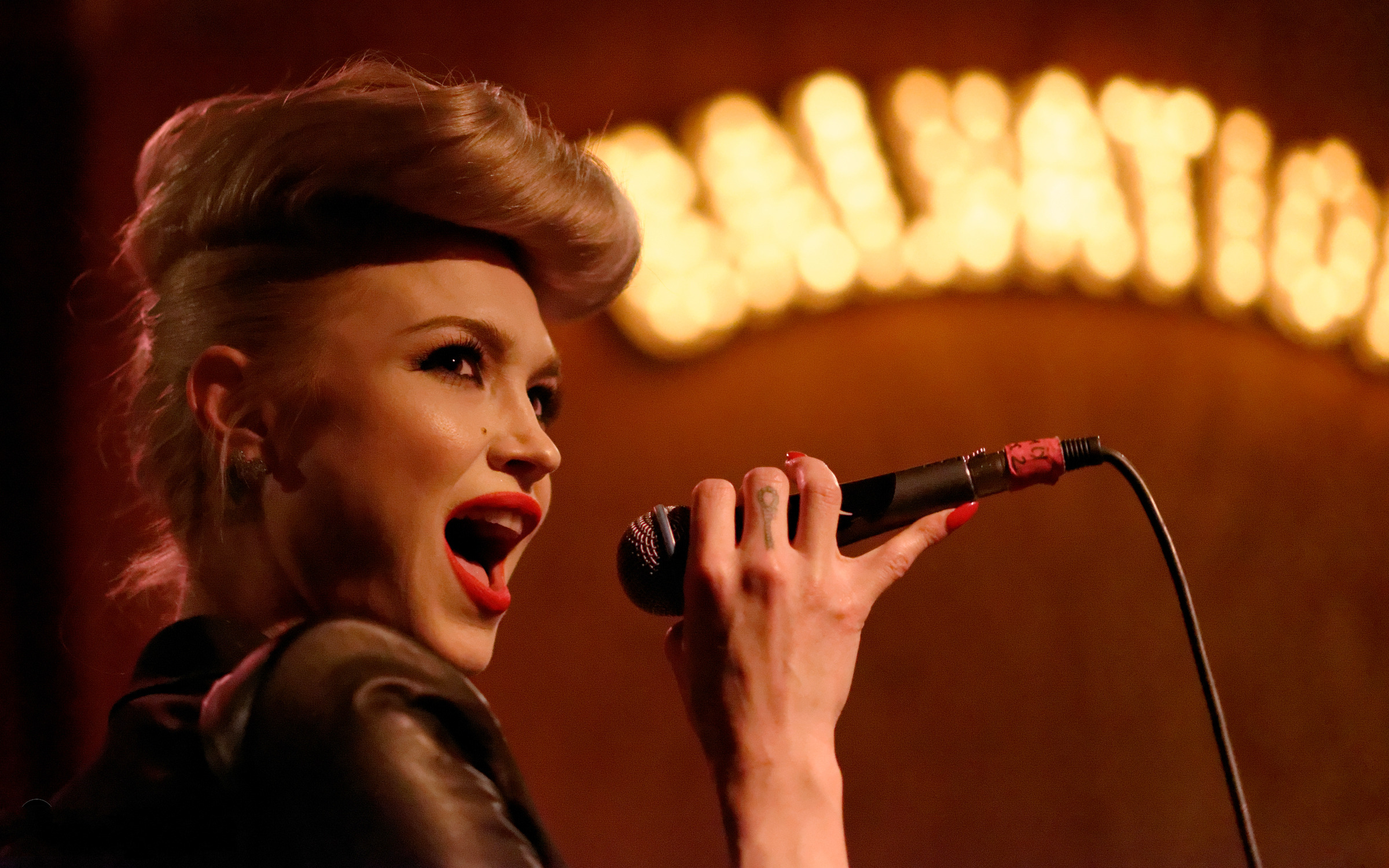 Ivy Levan performing live at the Bootleg Bar in Los Angeles California on February 9th, 2014.